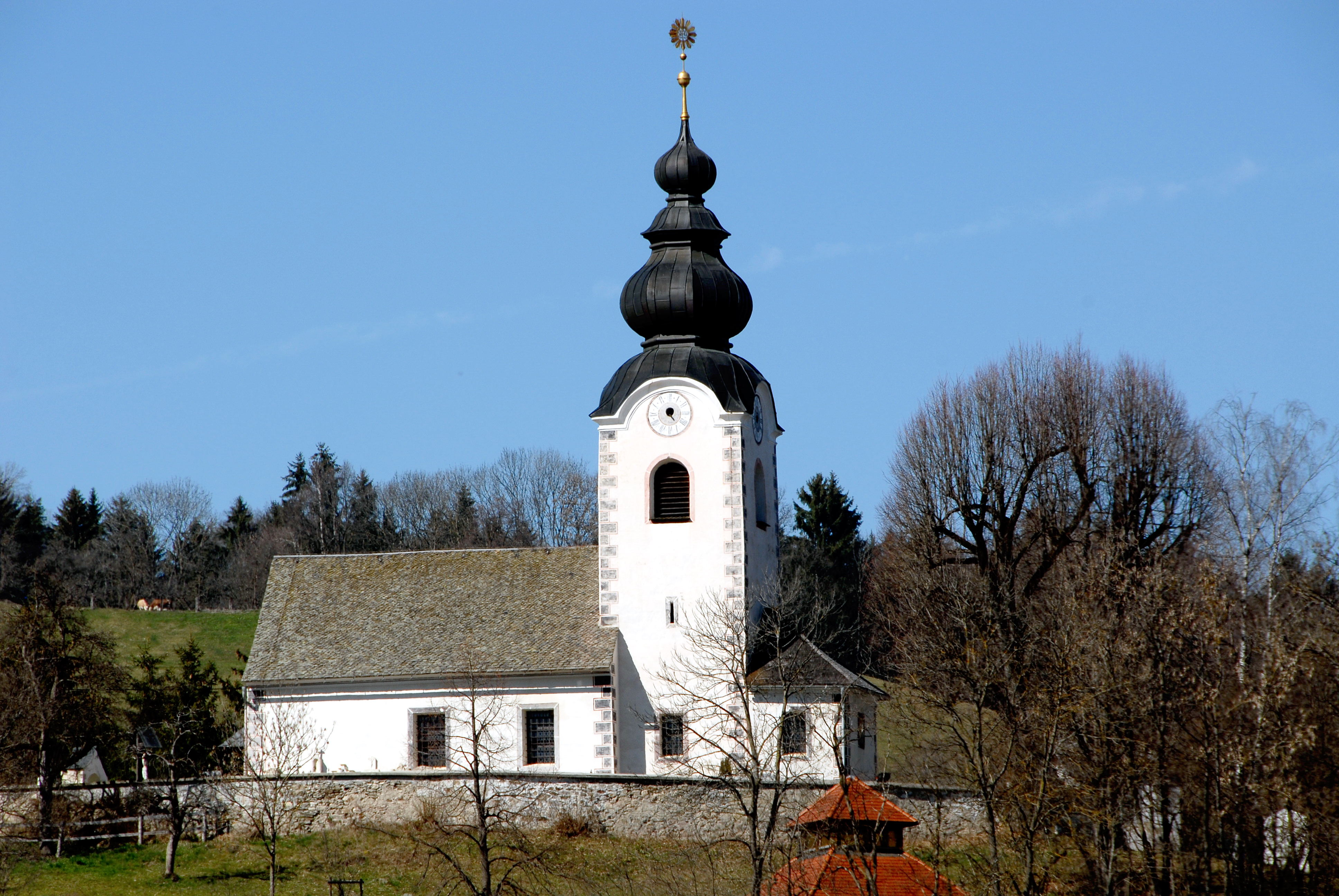 Parish church Saints Lambertus and Ulrich at Poertschach am Berg, market town Maria Saal, district Klagenfurt Land, Carinthia, Austria, EU